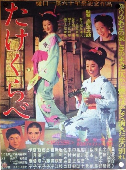 Movie poster for 1955 Japanese movie Takekurabe (たけくらべ ,Takekurabe), English titles include: Adolescence aka Growing Up Twice aka Growing Up aka Child's Play.